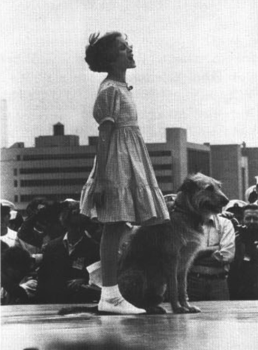 14-year old Sarah Jessica Parker singing during a United Service Organizations (USO) show of Bob Hope aboard the U.S. Navy amphibious assault ship USS Iwo Jima (LPH-2) in New York City, 29 May 1979. From 1977 to 1981, Parker performed in the Broadway musical "Annie". Bob Hope celebrated his 76th birthday on the day of the show.